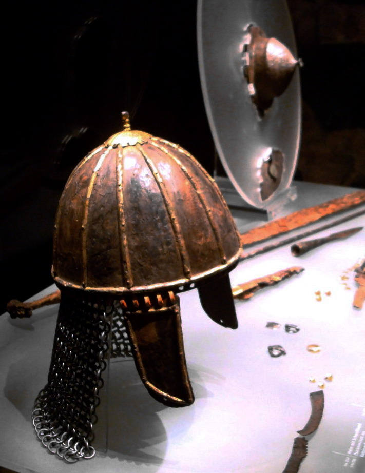 Cologne Cathedral Treasury (Domschatzkammer). Frankish helmet and other archaeological finds from a boy's grave, c.537